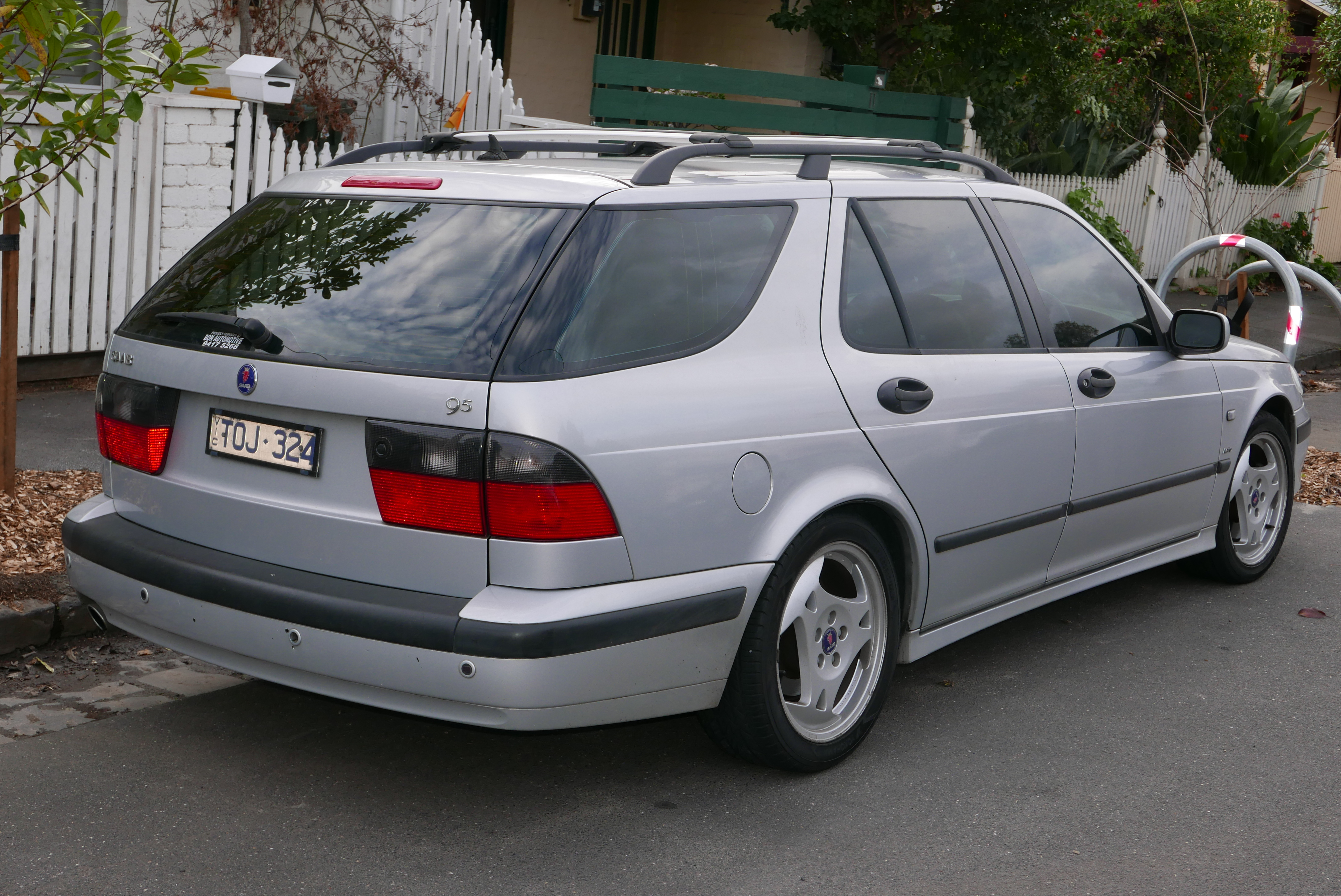 2001 Saab 9-5 Aero station wagon. Photographed in Collingwood, Victoria, Australia. Vehicle registration enquiry resultsJurisdictionVictoriaRegistrationTOJ324Chassis codeYS3EH58G413043407Engine codeB235REA211075167Compliance date2001-12Year of manufacture2001